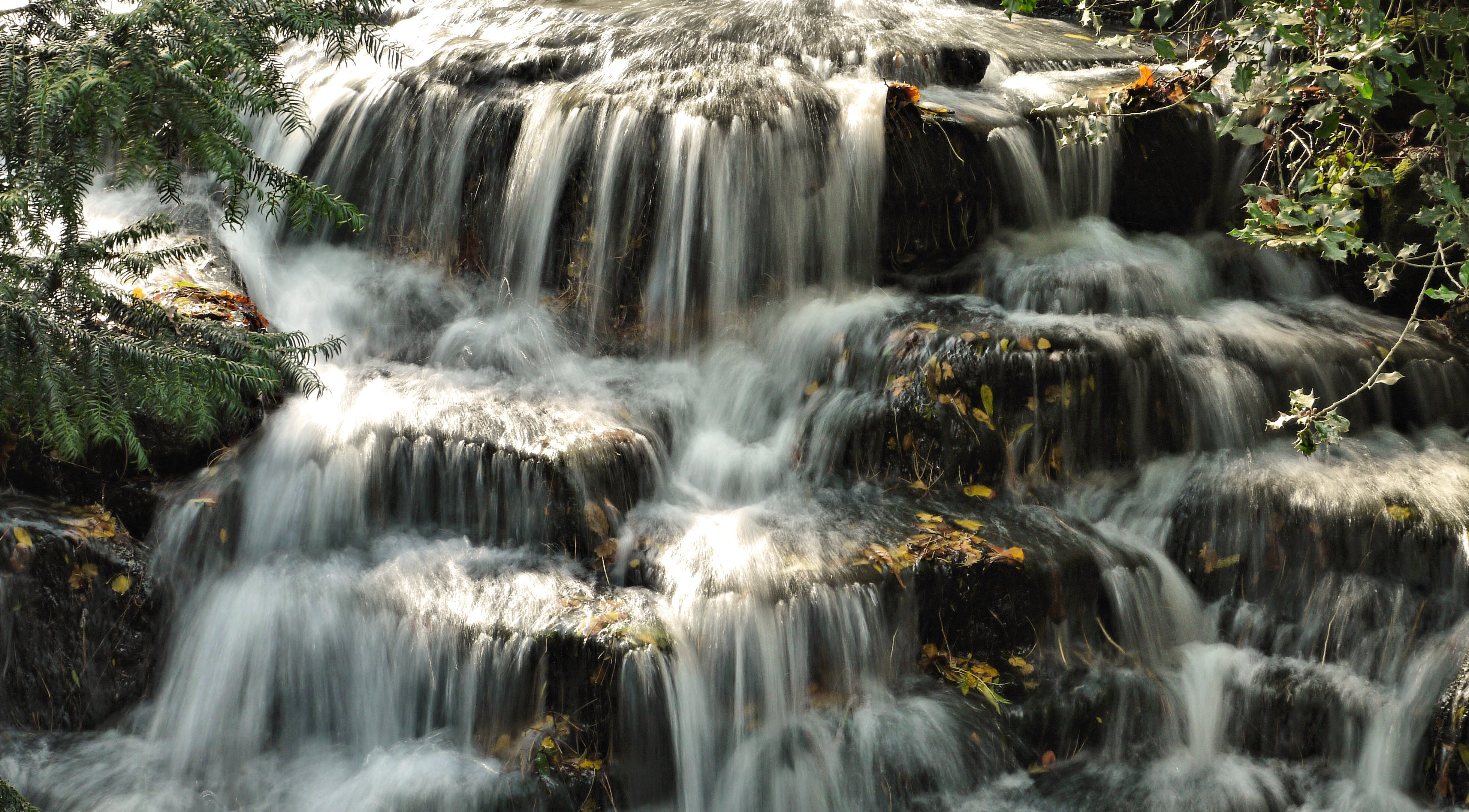 I know you have seen this before:) but it's great practice:D